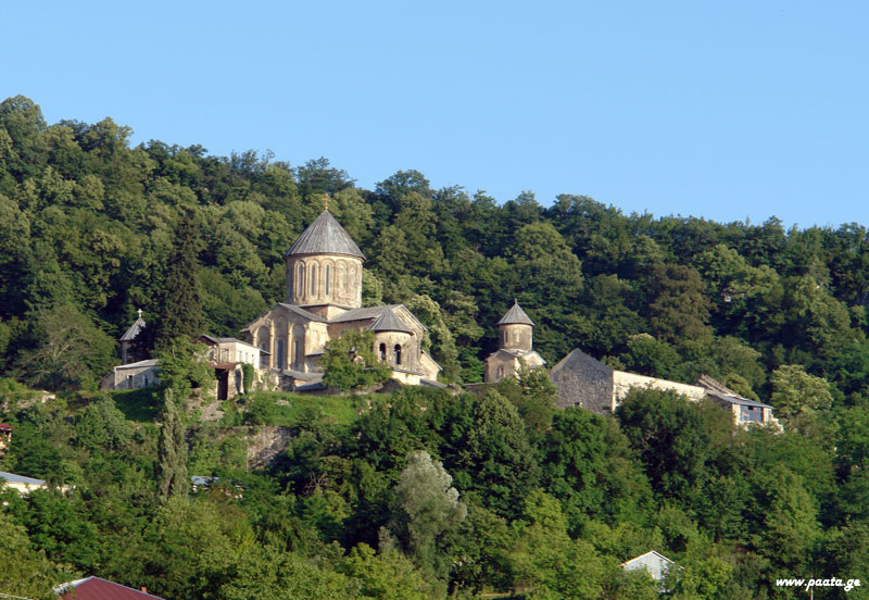 Gelati Monastery The Monastery of the Virgin - Gelati near Kutaisi (Imereti region of Western Georgia) was founded by the King of Georgia David the Builder (1089-1125) in 1106. The Gelati Monastery for a long time was one of the main cultural and intellectual centers in Georgia. It had an Academy which employed some of the most celebrated Georgian scientists, theologians and philosophers, many of whom had previously been active at various orthodox monasteries abroad or at the Mangan Academy in Constantinople. Among the scientists were such celebrated scholars as Ioane Petritsi and Arsen Ikaltoeli. Due to the extensive work carried out by the Gelati Academy, people of the time called it "a new Hellas" and "a second Athos". The Gelati Monastery has preserved a great number of murals and manuscripts dating back to the 12th-17th centuries. In Gelati is buried one of the greatest Georgian kings, David the Builder (Davit Agmashenebeli in Georgian).